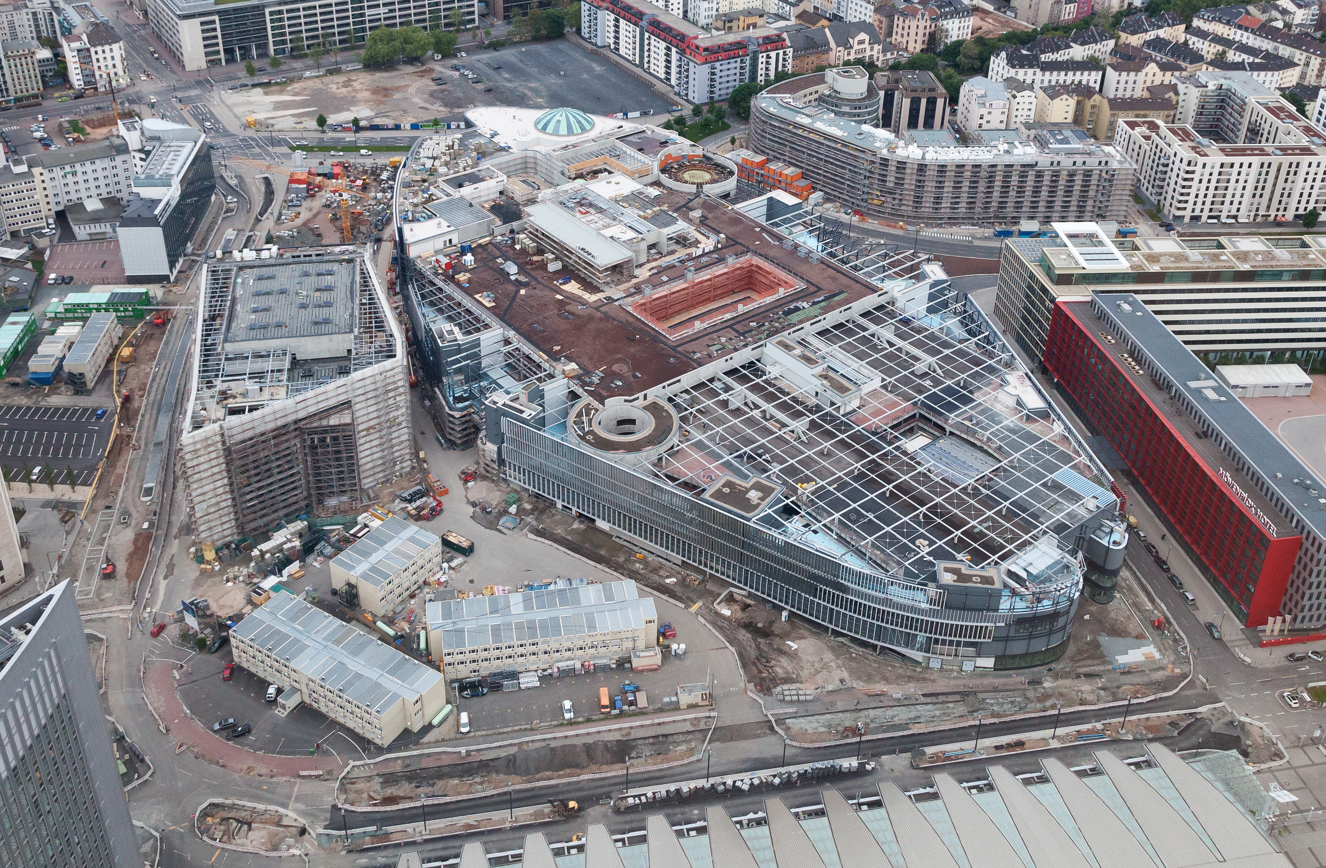 Skyline Plaza and Kap Europa construction site in Frankfurt, Germany